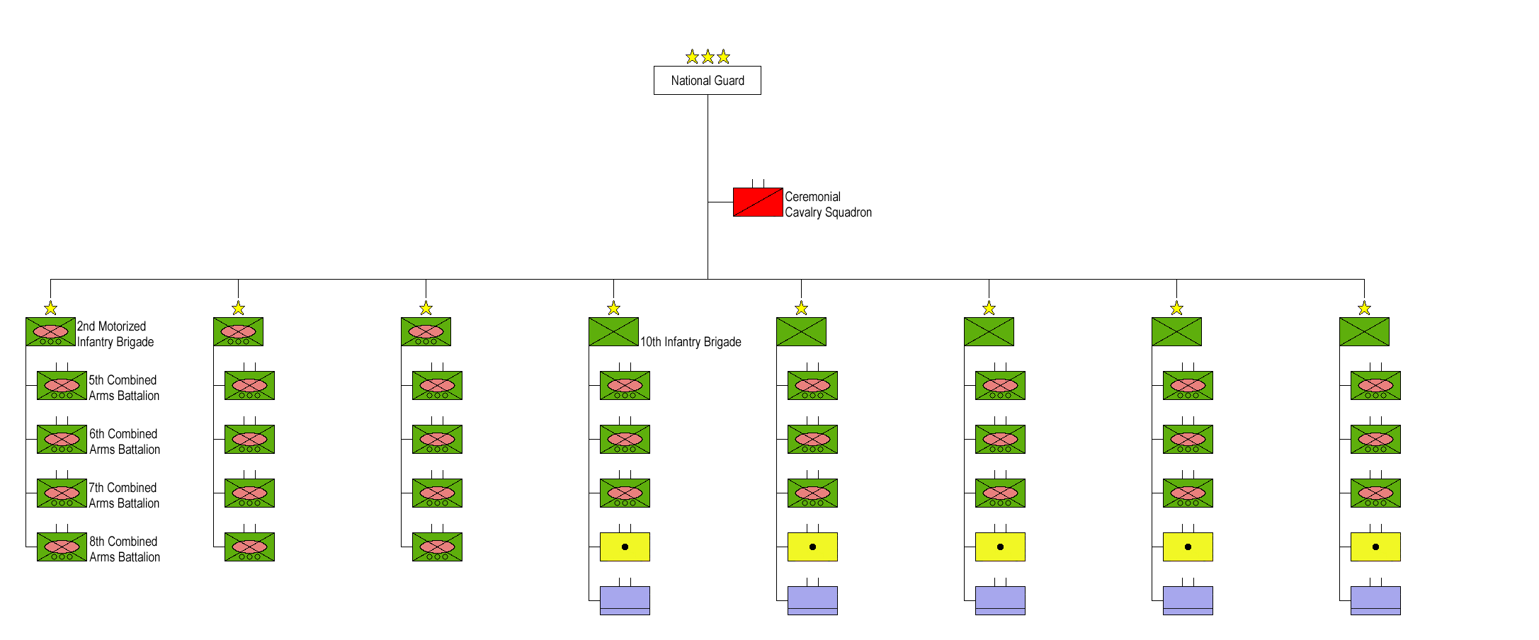 Organisation of the Saudi Arabian National Guard